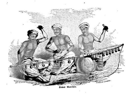 Channaar( Ezhava )Musicians from the 19th century